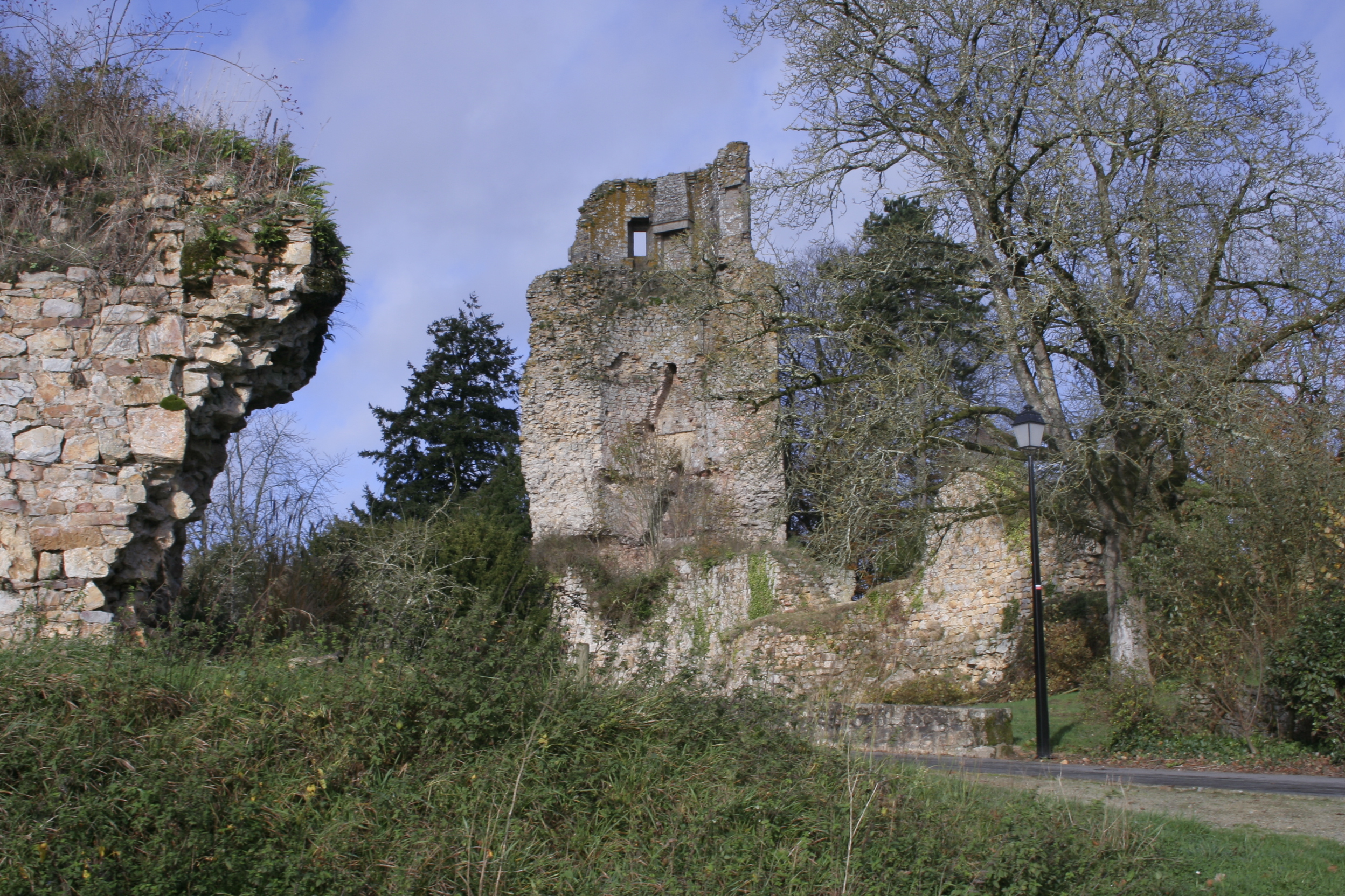 Saint-Aubin-du-Cormier, ruins of castle